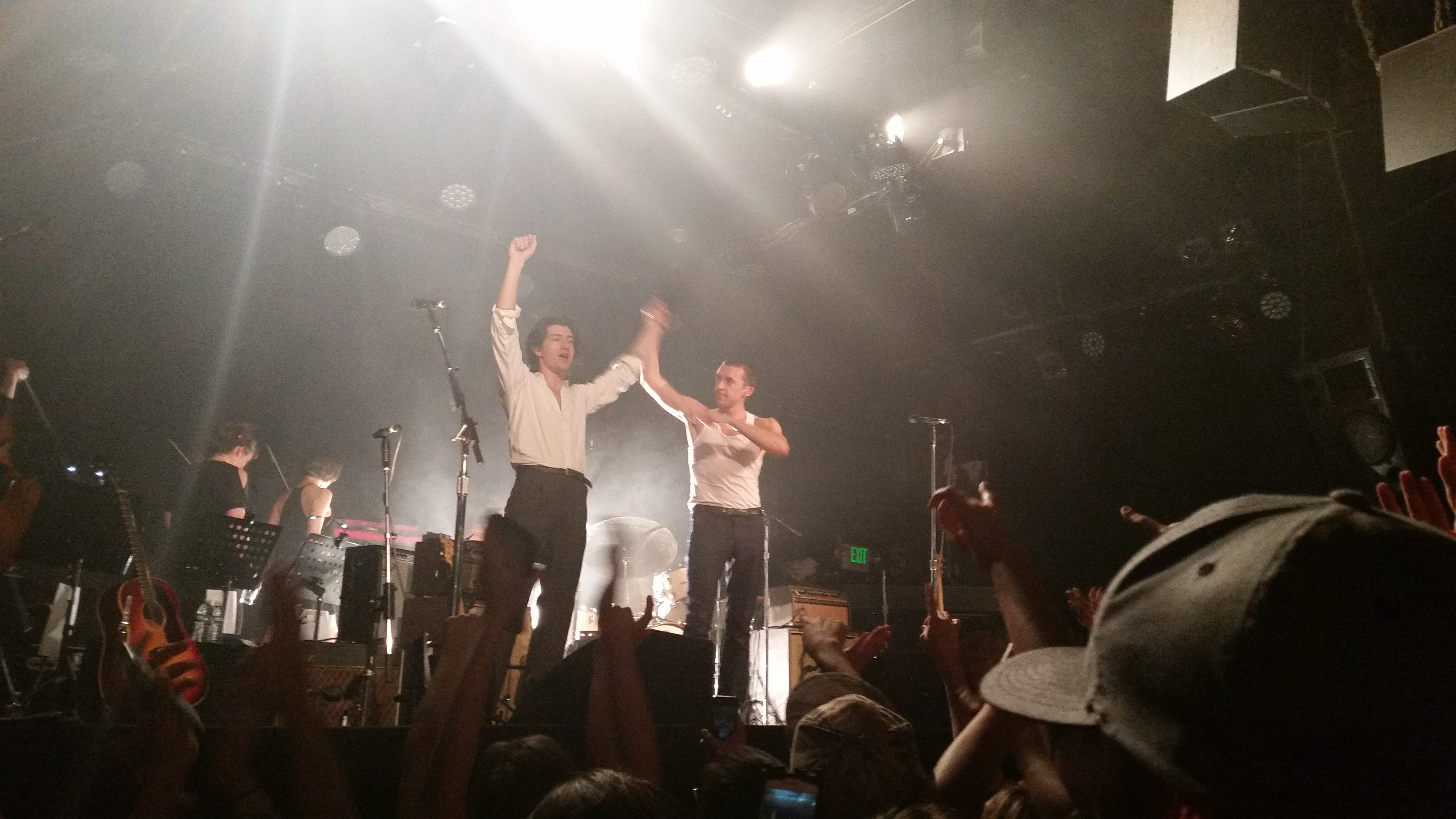 The Last Shadow Puppets live at Catalyst Club, Santa Cruz, 2016